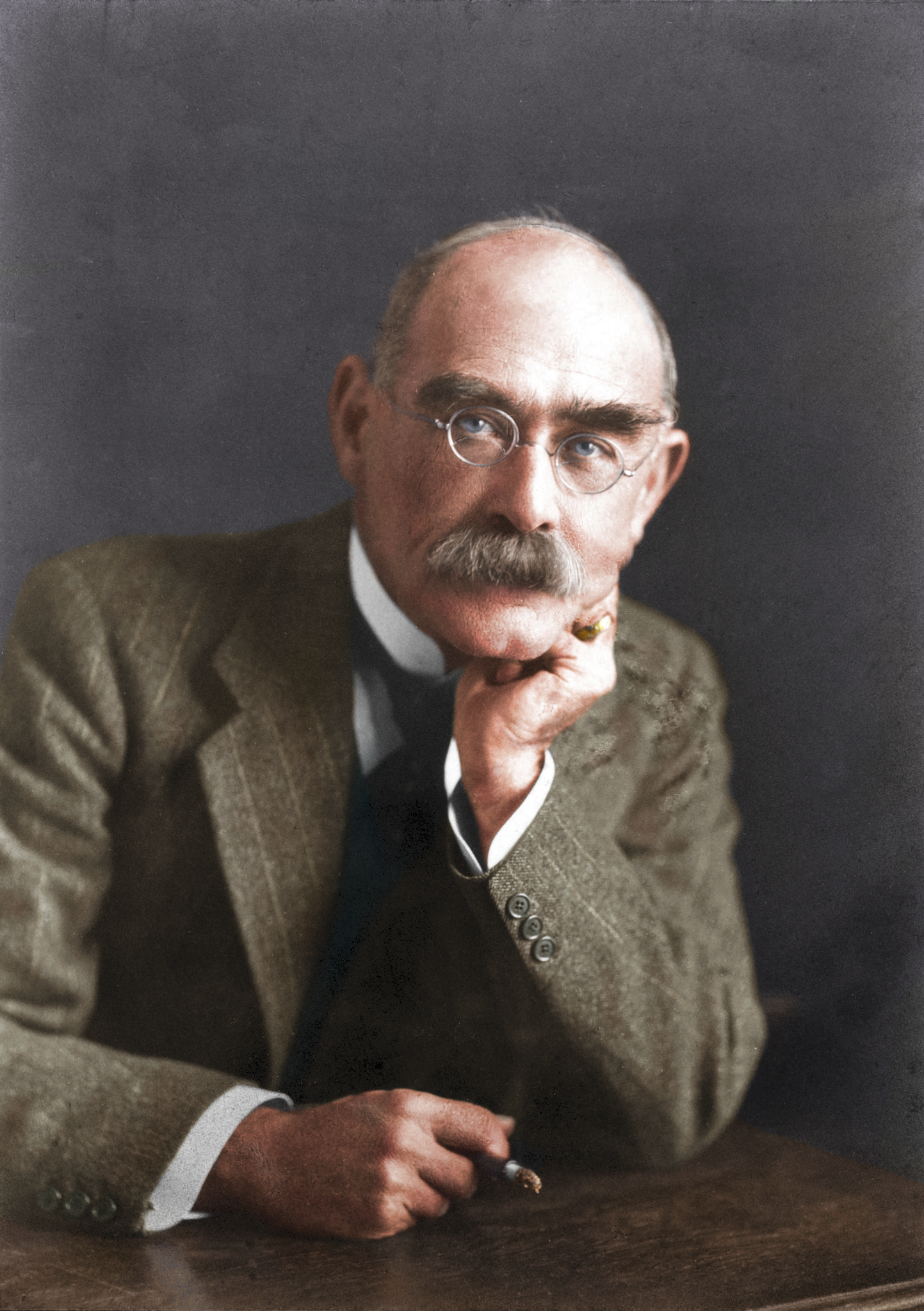 Rudyard Kipling (1865-1936).